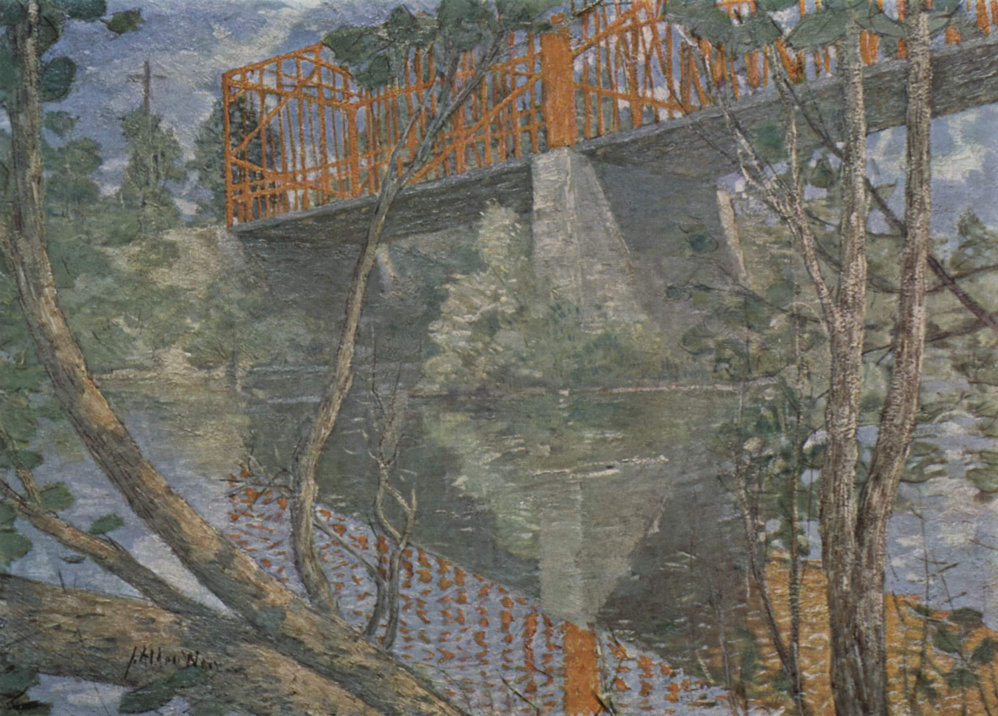 Iron truss bridge, covered with red priming paint, over the Shetucket River near Windham.